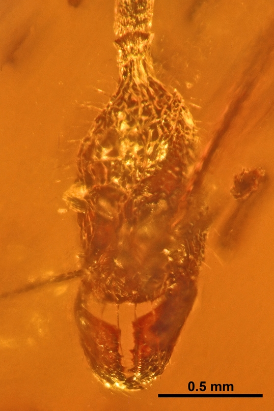 Close-up view of the Aphaenogaster amphioceanica holotype head. Specimen " SMNSDO4629"